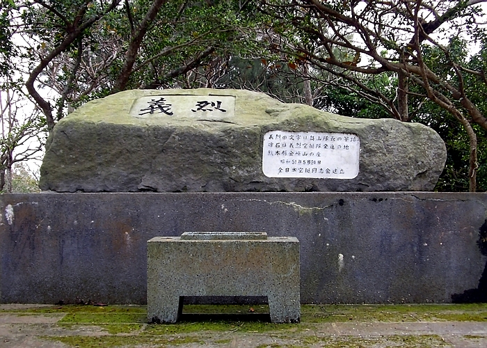 Memorial to Giretsu Airborne Commandos, Itoman City, Okinawa, Japan